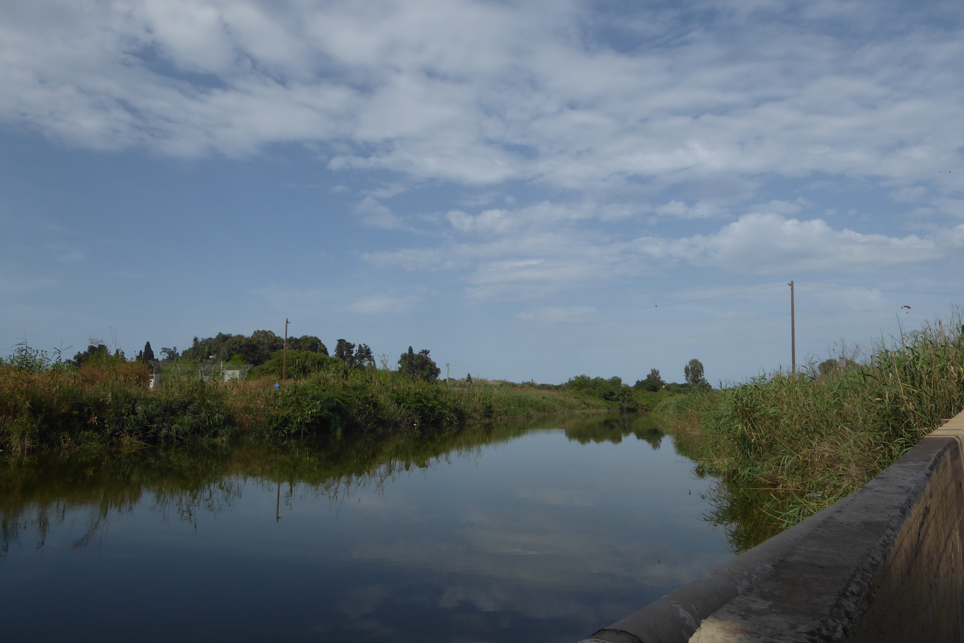 Alexander Stream